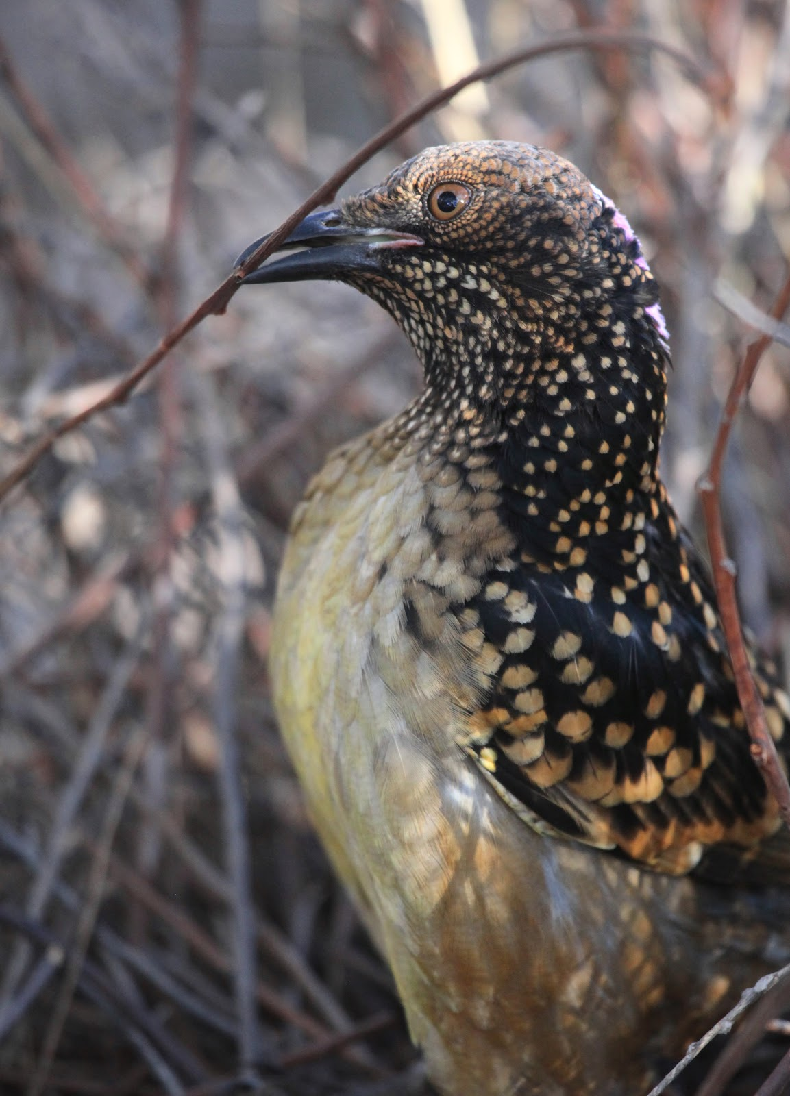 Western Bowerbird (Chlamydera guttata), Northern Territory, Australia